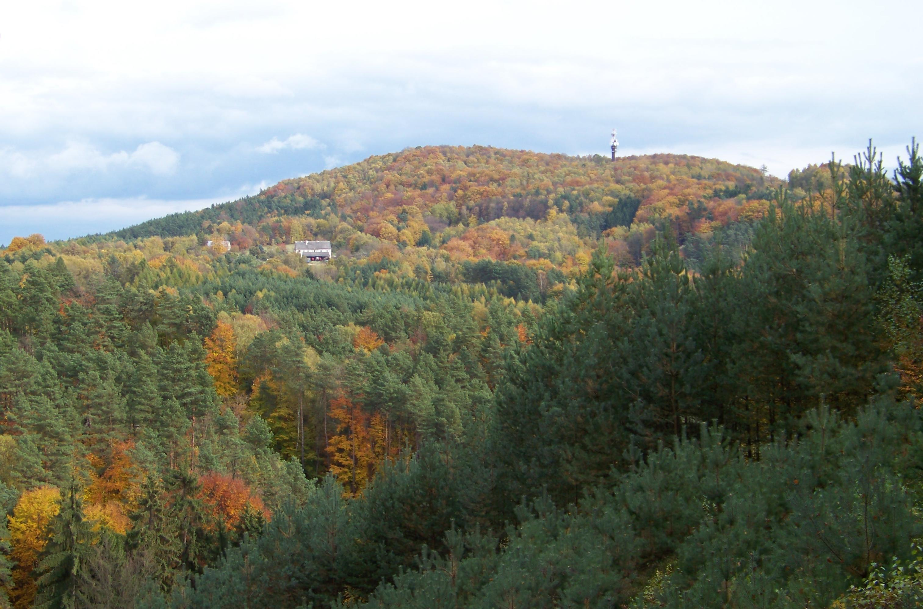 A view of Vrátenská hora and Na Fučíkovském from Uhelný vrch, Mělník District, Central Bohemian Region, the Czech Republic.